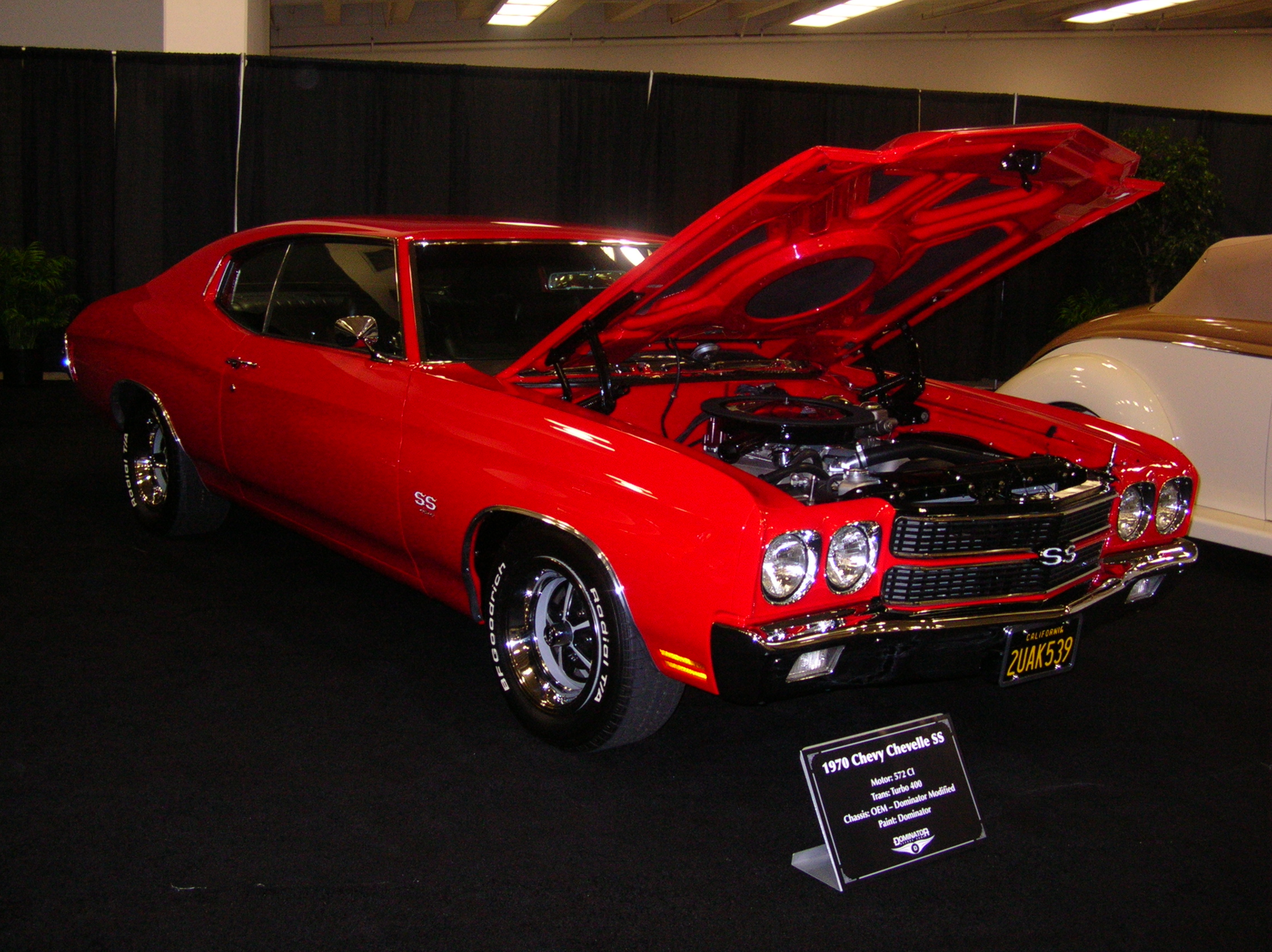 A 1970 Chevrolet Chevelle SS at the 2009 San Francisco International Auto Show.